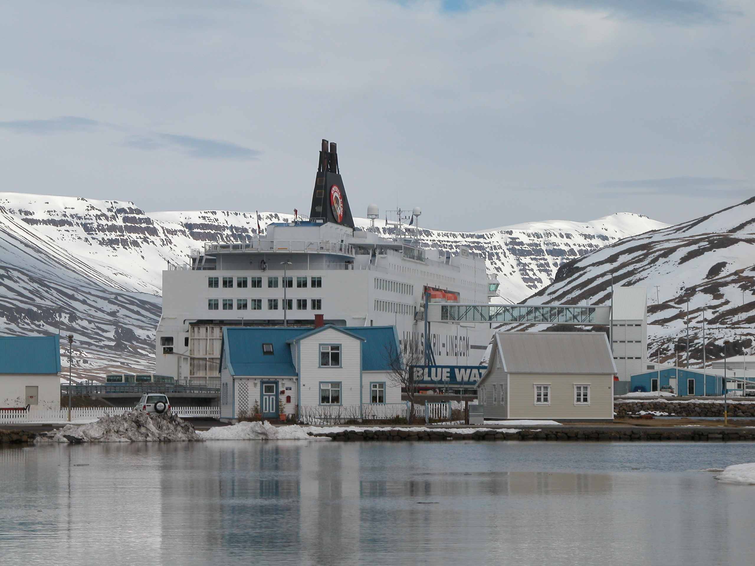 Seyðisfjörður, Iceland